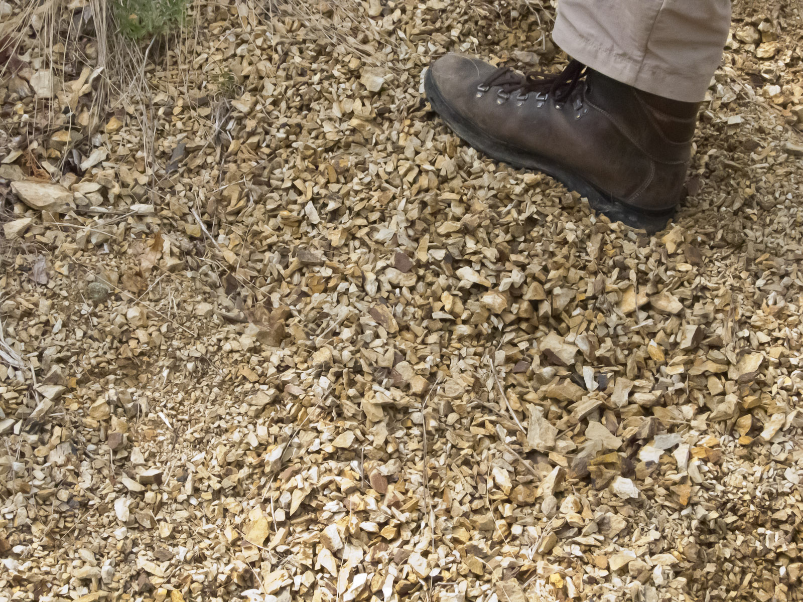 Tioga Bentonite - Seven Fountains VA